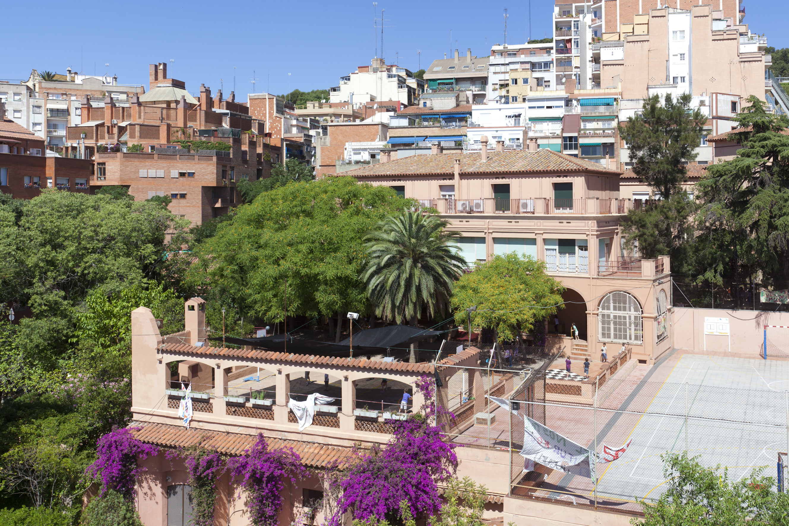 Historical Routes at the Horta-Guinardó District Administration in Barcelona This image was provided to Wikimedia Commons by the Horta-Guinardó District Administration in Barcelona as part of an ongoing cooperative project with Amical Viquipèdia. English | +/−